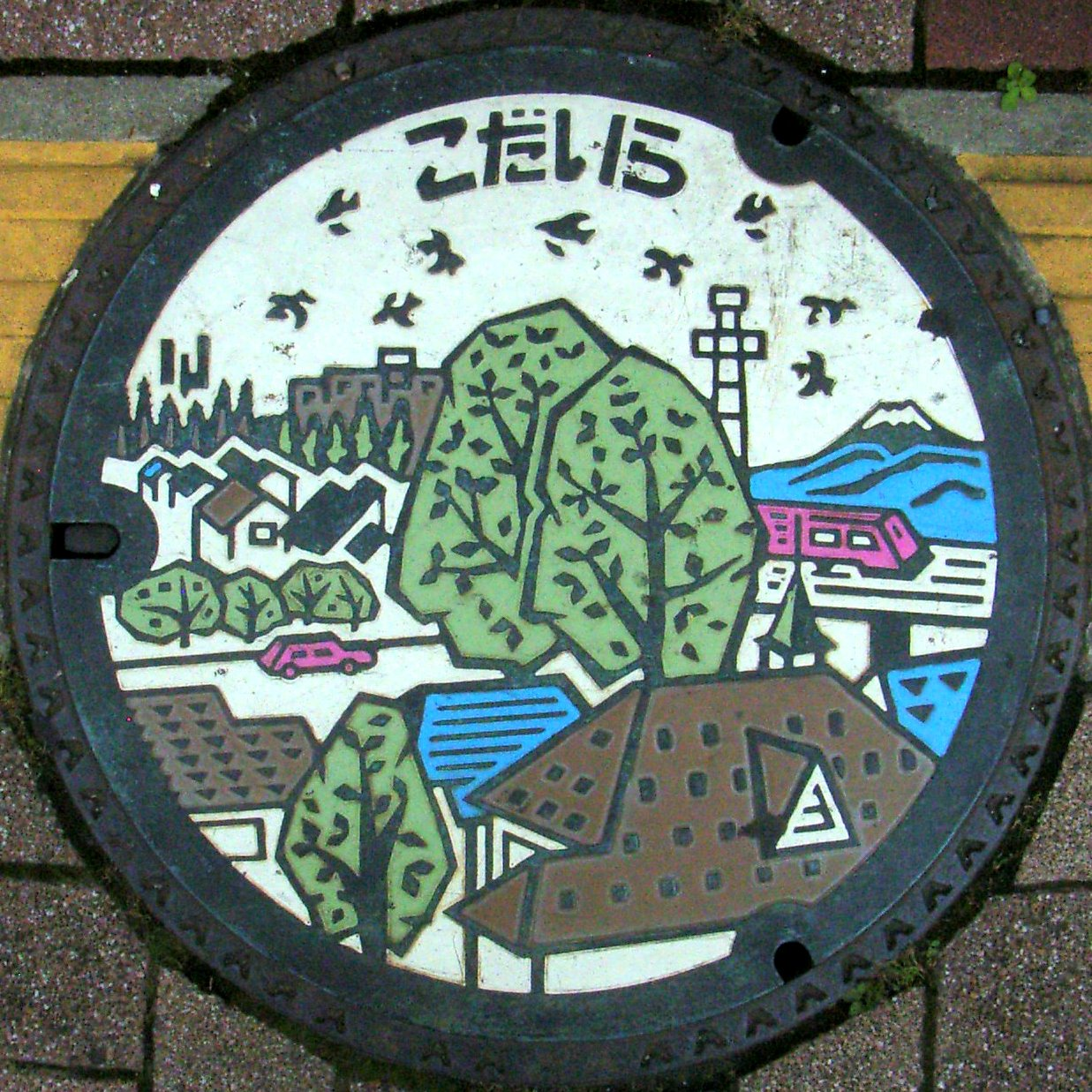 One of the many kinds of Japanese manhole covers, found in Kodaira City, Tokyo, JAPAN.